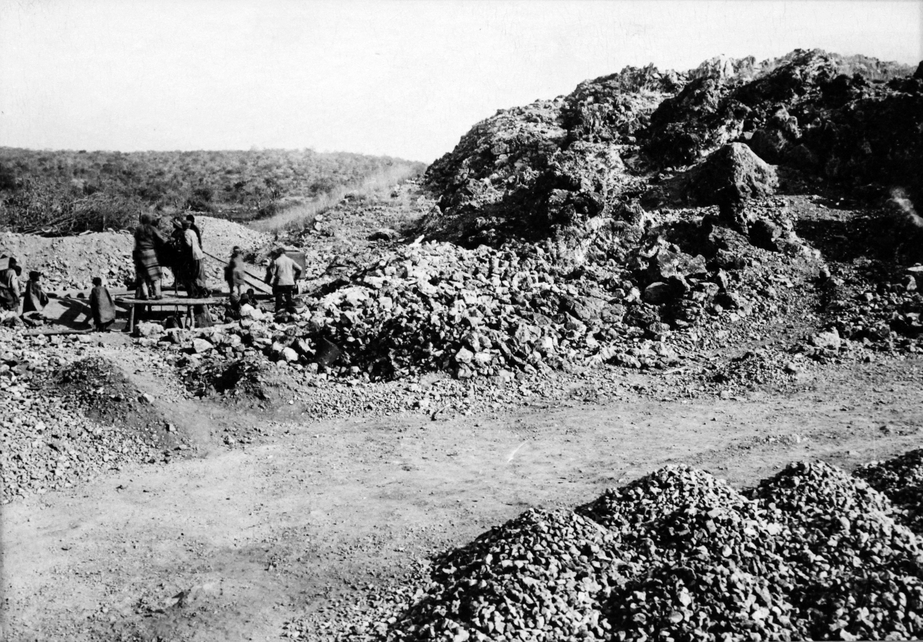 The 12 mtr high malachite hill (green hill) of Tsumeb, ca. 1905